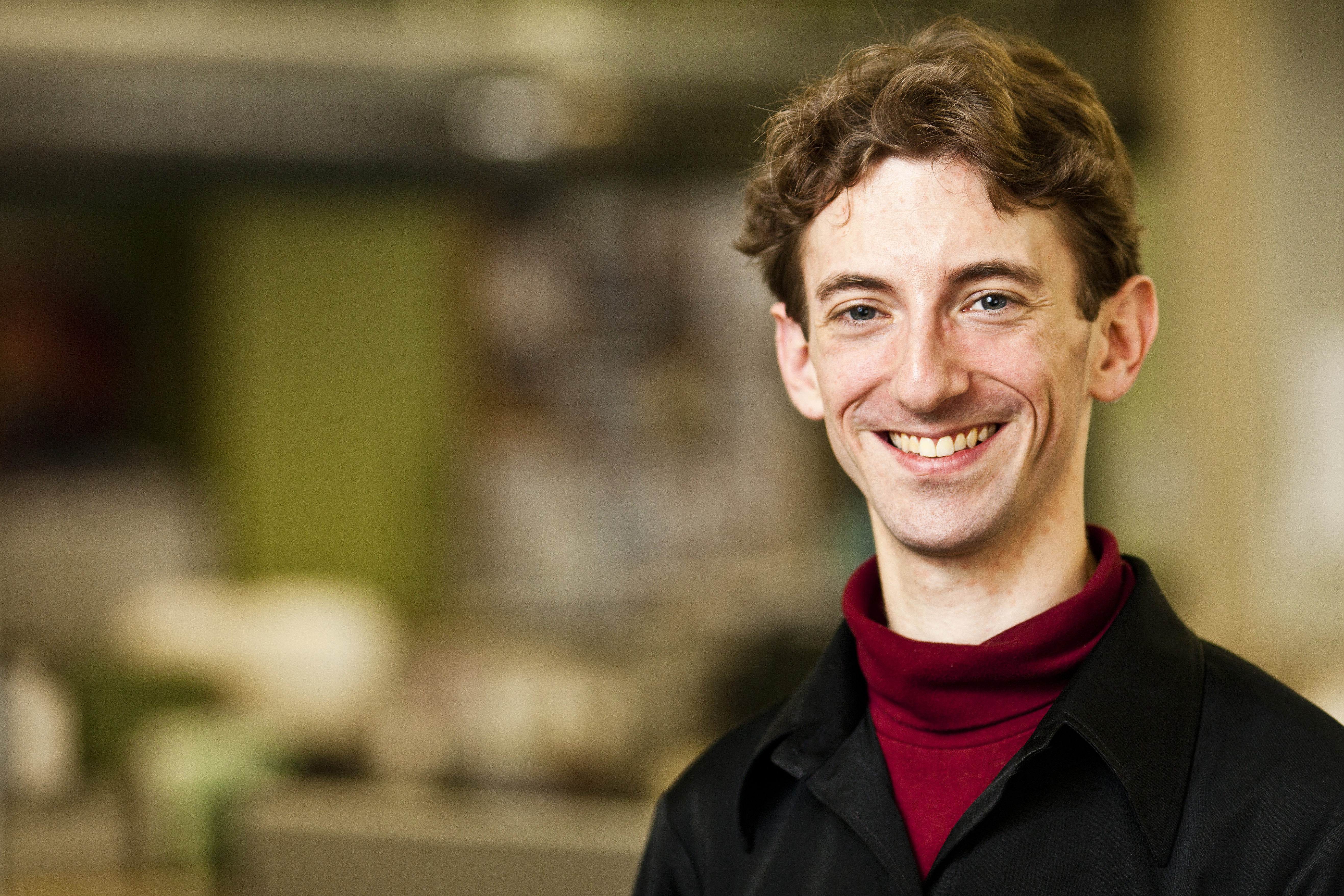 Portrait of Wikimedia Foundation Board member Samuel Klein